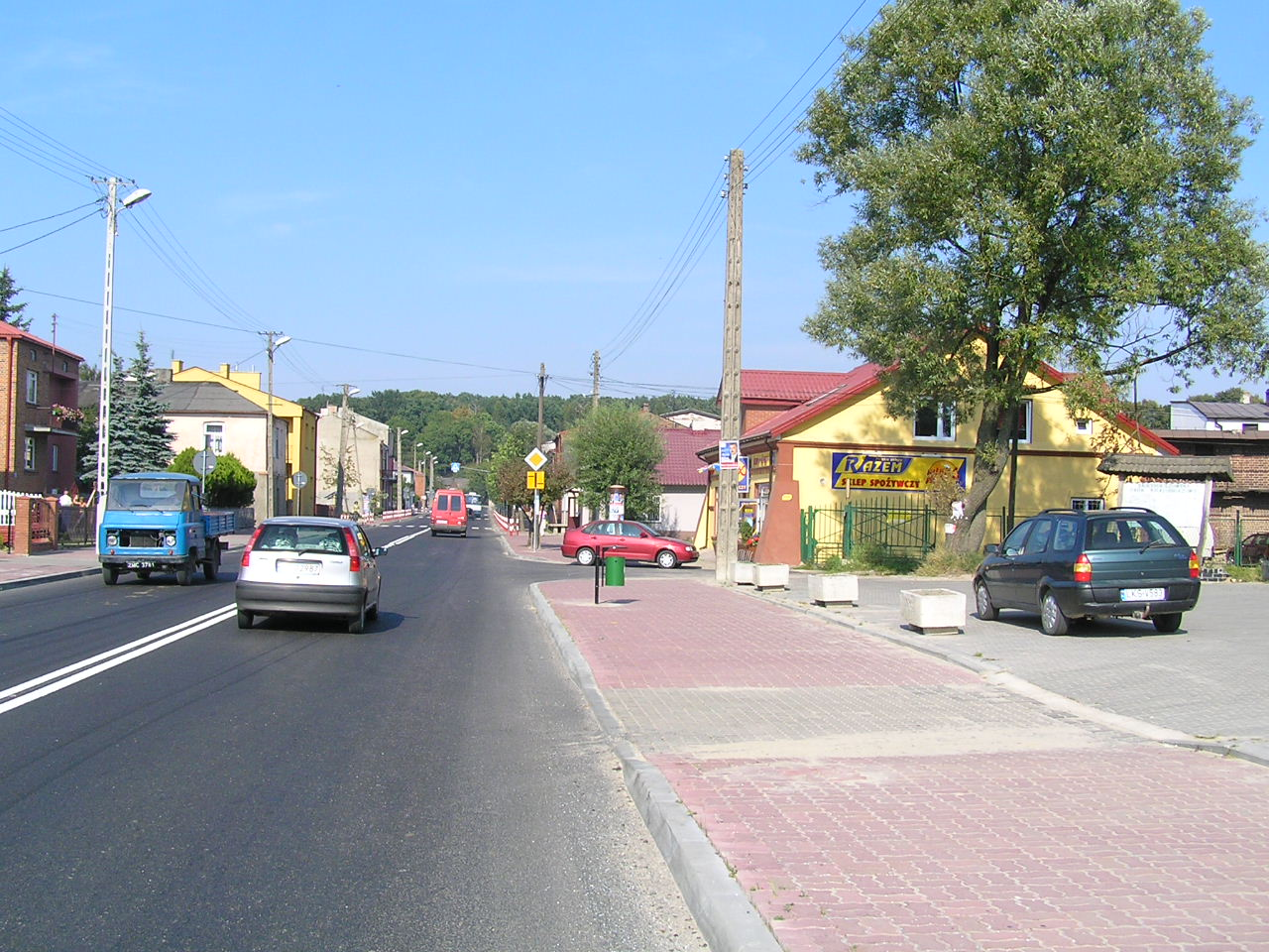 autor: Yarek shalom 08:18, 11 October 2006 (UTC)yarek shalom